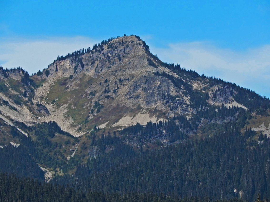 Copper Mountain 6280' seen from Inspiration Point on Stevens Canyon Road in Mount Rainier National Park.